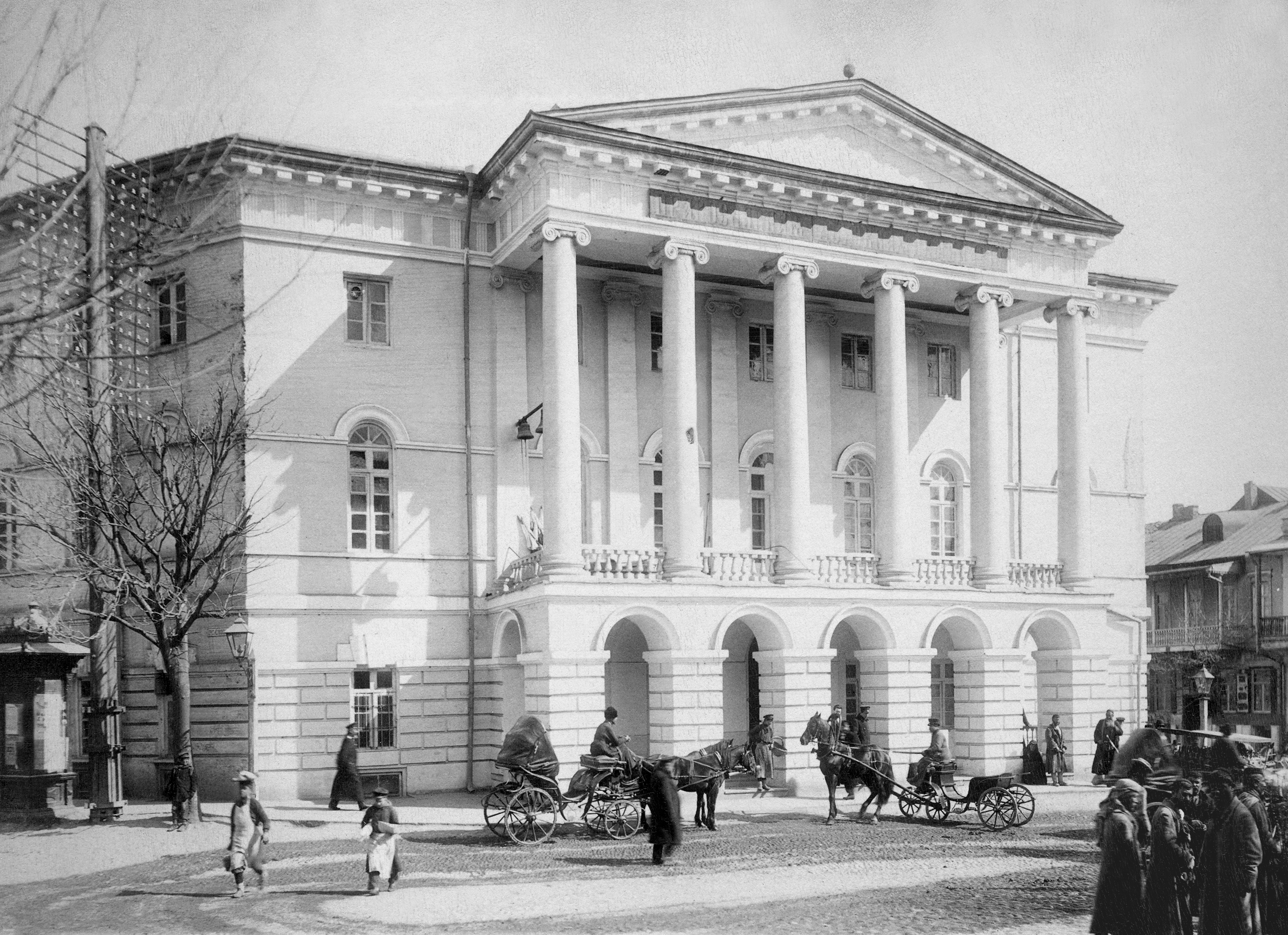 Tbilisi in XIX century, Hotel "Palace", Freedom Square. The Tbilisi Orthodox Theological Seminary. The main facade. The project architect Bernardazzi. The end of 1830s. Photo by D. Jermakov